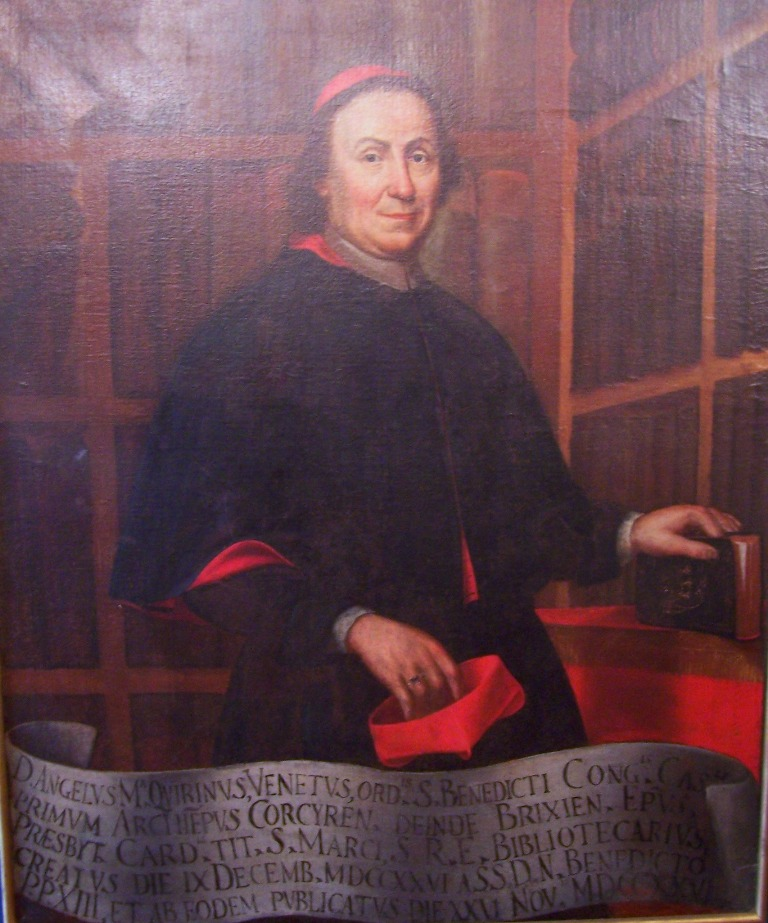 Cardinal Angelo Maria Querini